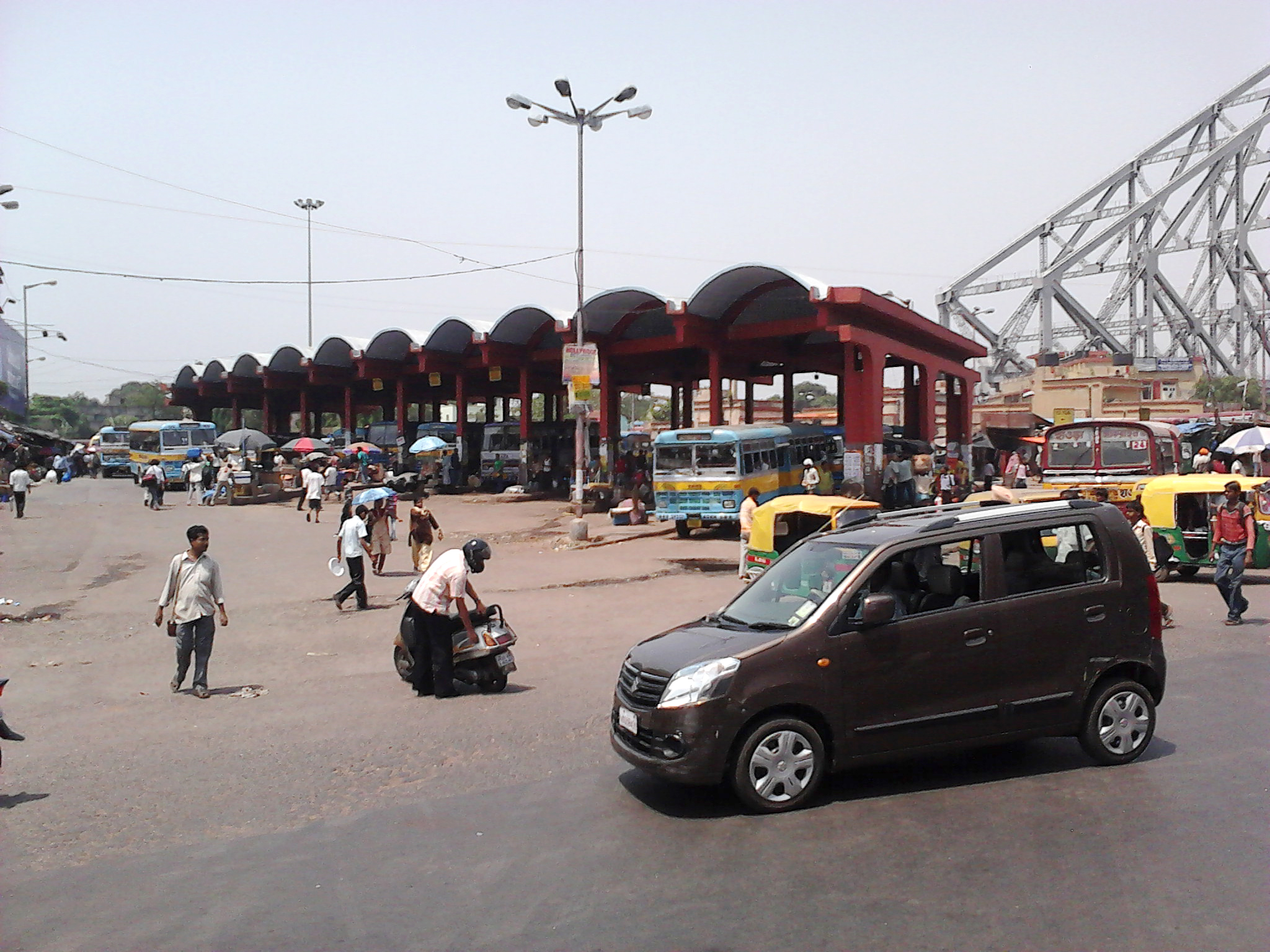 Howrah station area is one of the busiest place in India. It is the gateway of Kolkata.